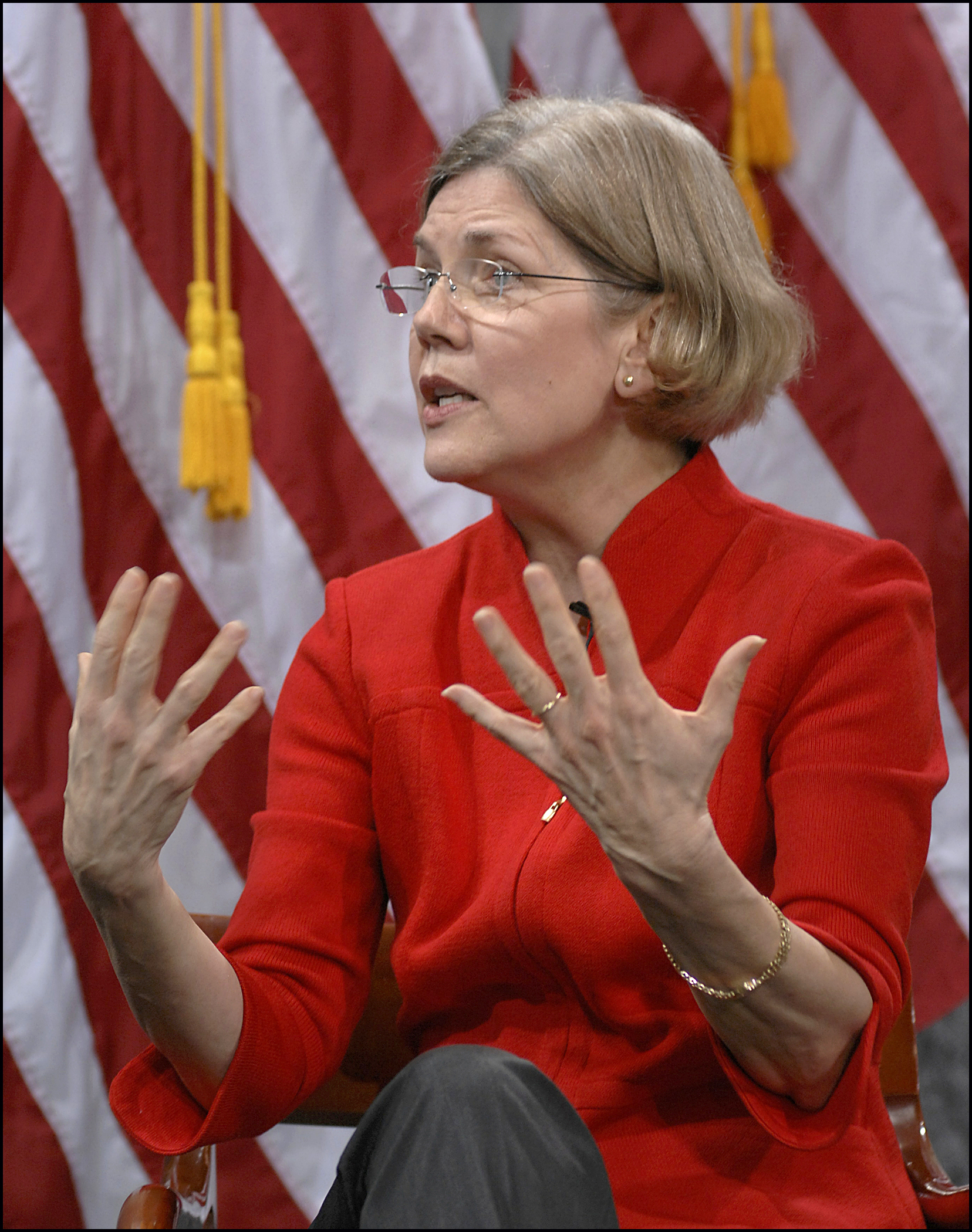 Elizabeth Warren speaking at March 29, 2010, at the Women in Finance symposium. Warren was part of a five-woman panel discussion.